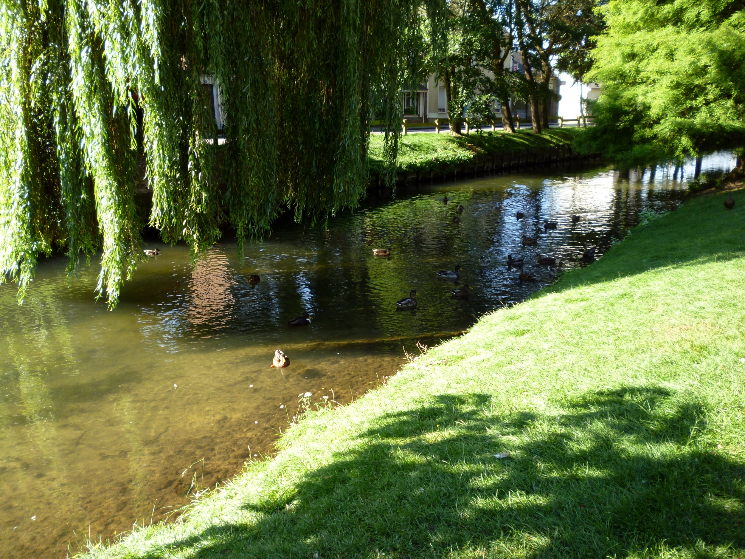 The Iton in Évreux.